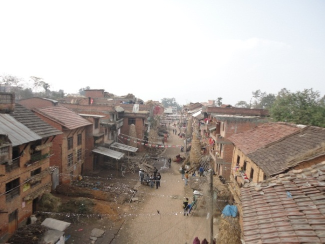 Pyangau village